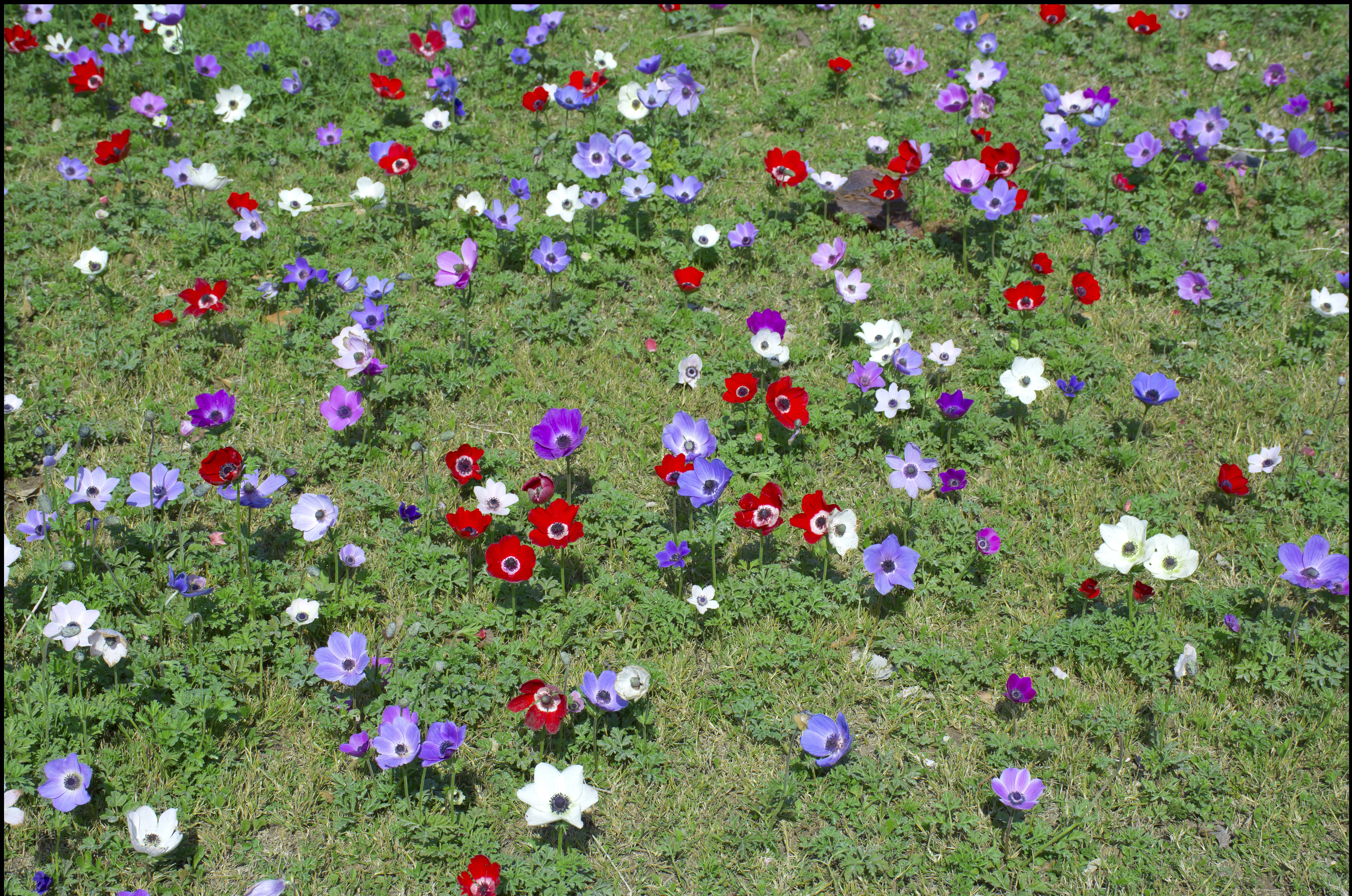 Anemone coronaria in Kibbutz Dalia, Ramot Menashe, Israel